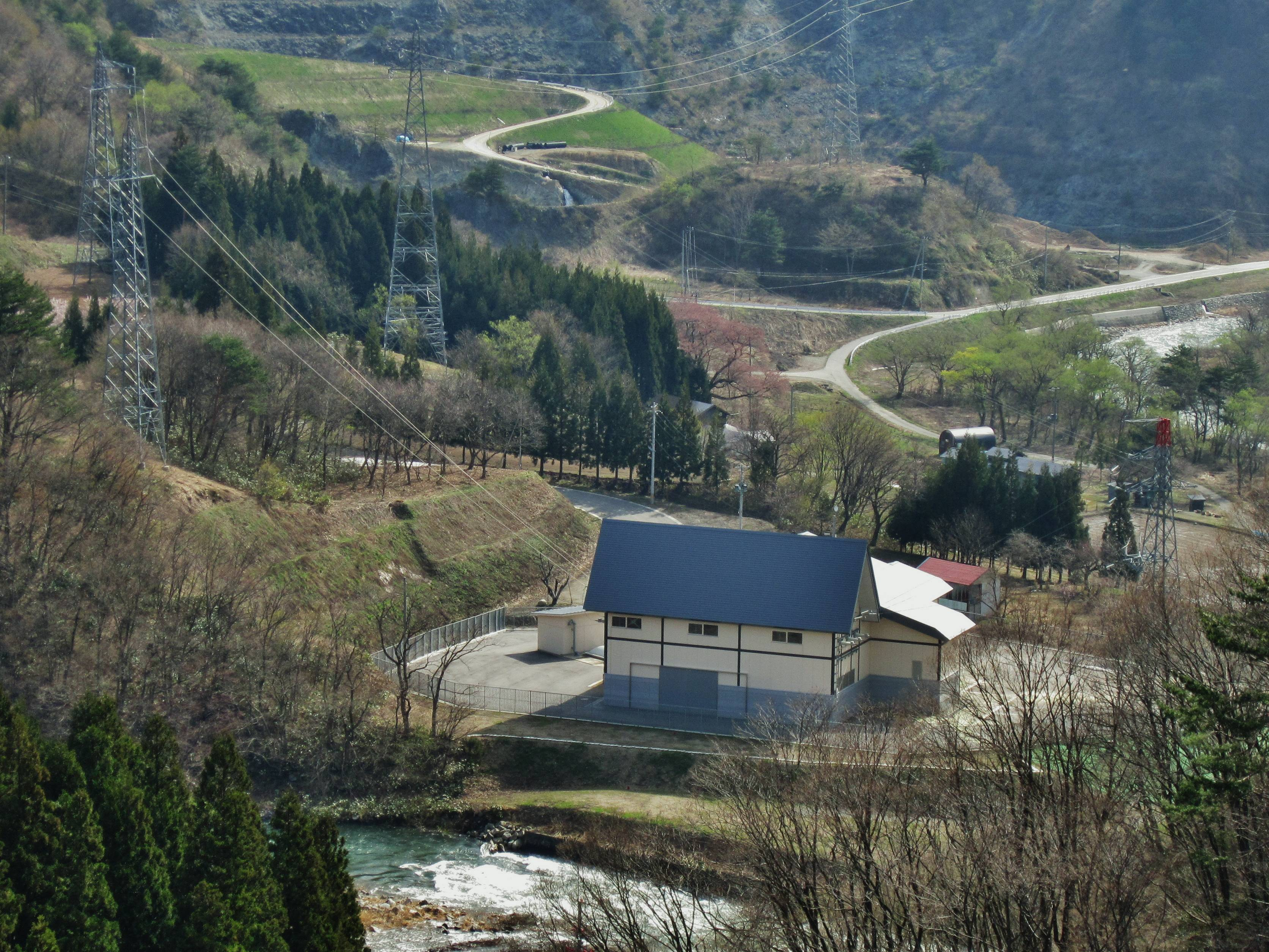 Shinnogawa I power station.